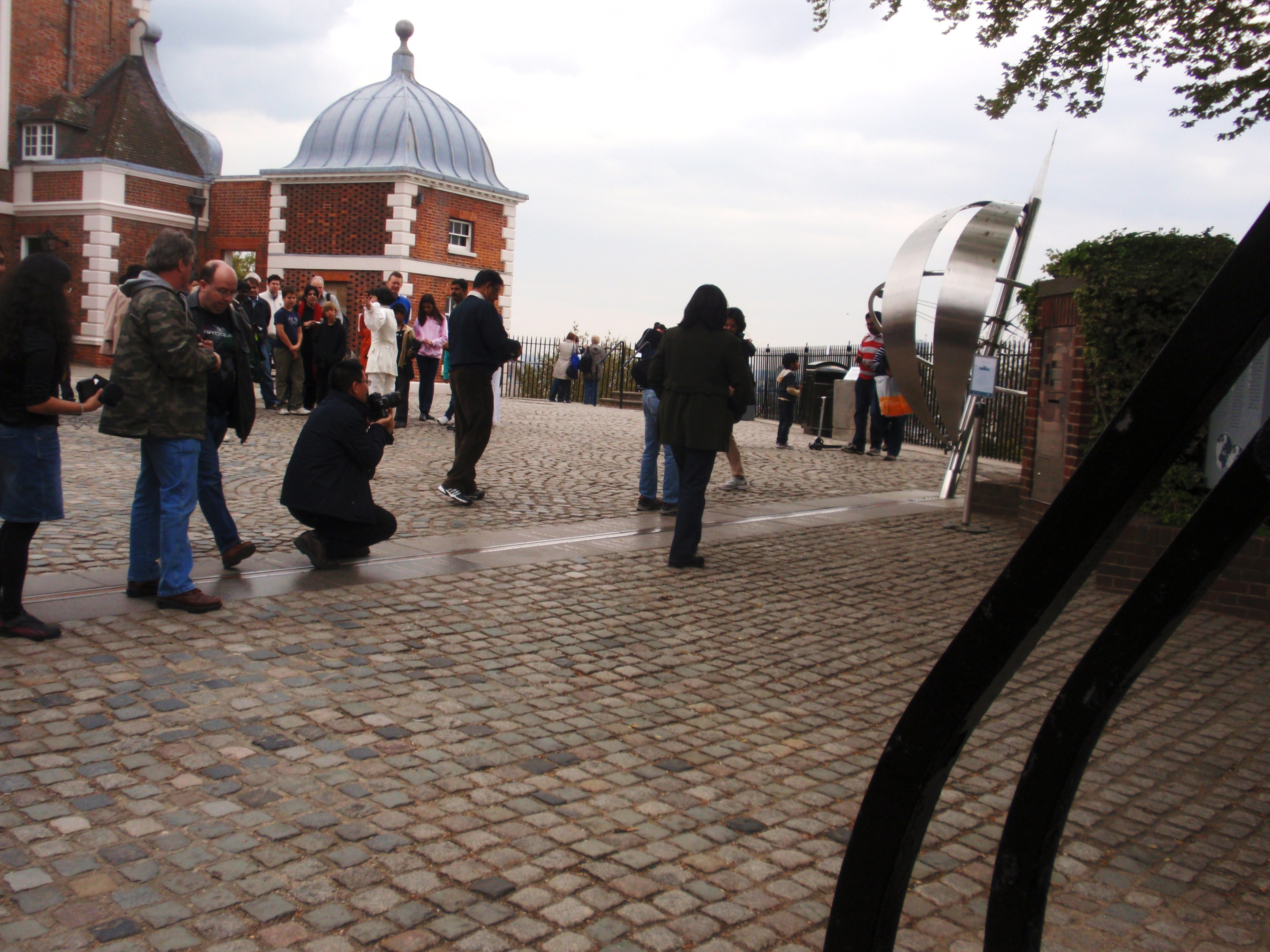 Prime meridian line in Royal Observatory, Greenwich